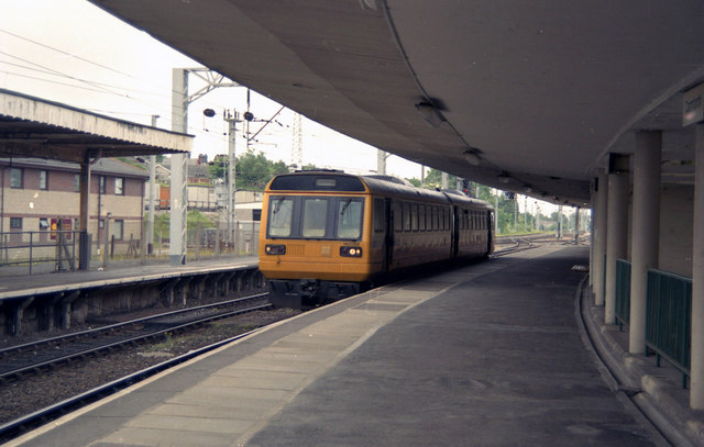 Carnforth railway station Original description: Carnforth station in 1998 Carnforth station at that time was at a very low ebb, with the main-line platforms out of use, before its recent restoration, and no-one could have imagined that Noel Coward's memorable film, 'Brief Encounter' could have been made there. The train shown is a Class 142 'Pacer' unit, in Merseyside livery. Unbelievably, this train was the scheduled service for all stations to Carlisle via Barrow-in-Furness, a journey of some three hours, and to suspend credibility even further, the same unit was then rostered for the connecting service from Carlisle to Newcastle, where it did not finish, but then ran to Middlesbrough via Sunderland. Anyone making the through journey on this uncomfortable unit would probably have needed admission to intensive care, provided they were not found dead on arrival at Middlesbrough.